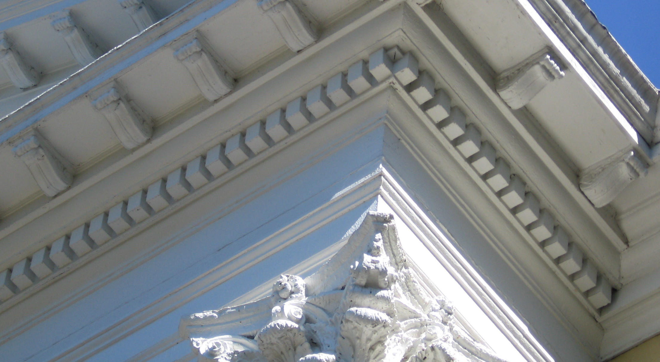 Dentils on the classical facade of Westport, Connecticut Town Hall, Myrtle Avenue